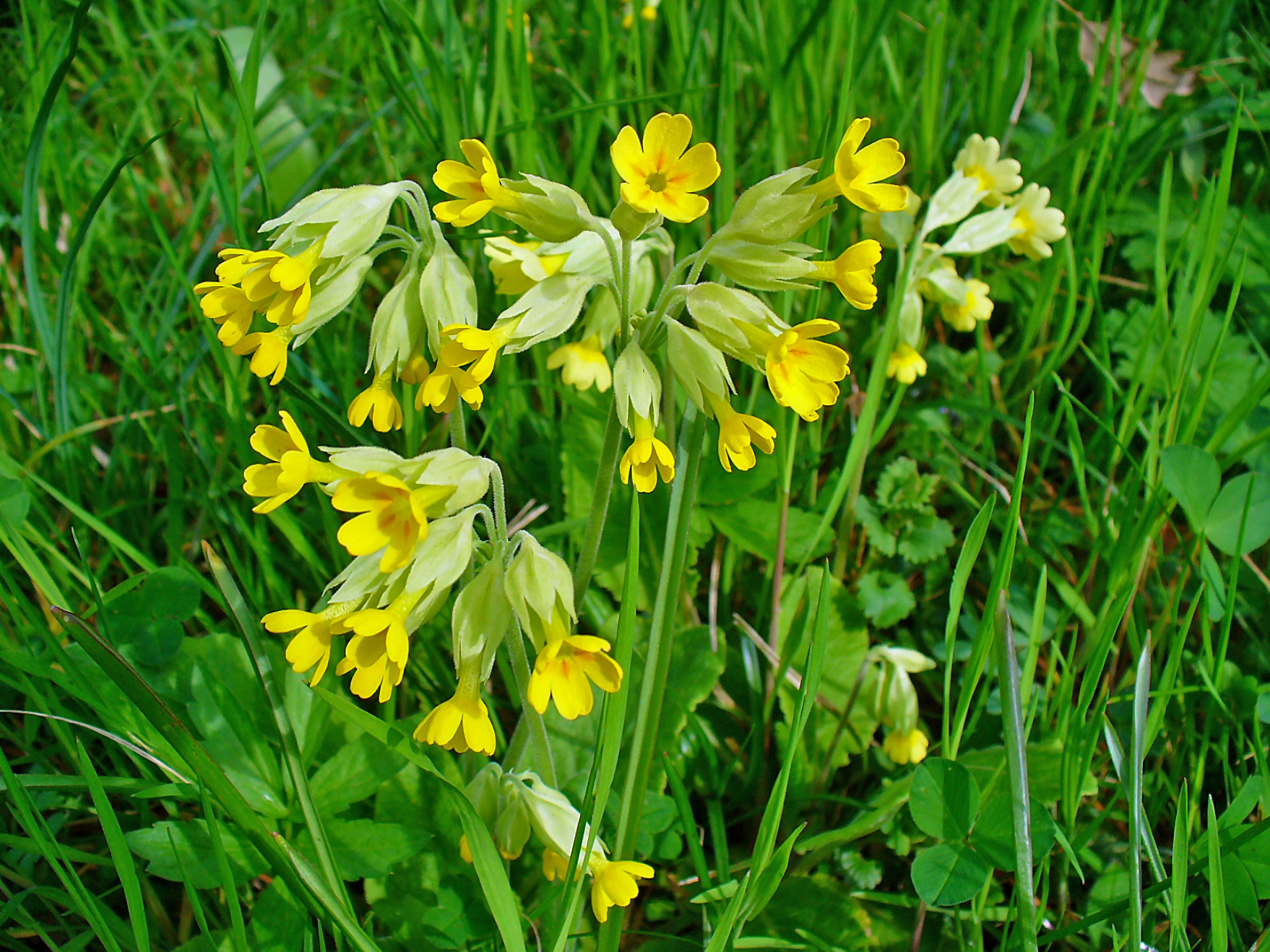 Primula veris, Primulaceae, Cowslip, inflorescences. Karlsruhe, Germany.